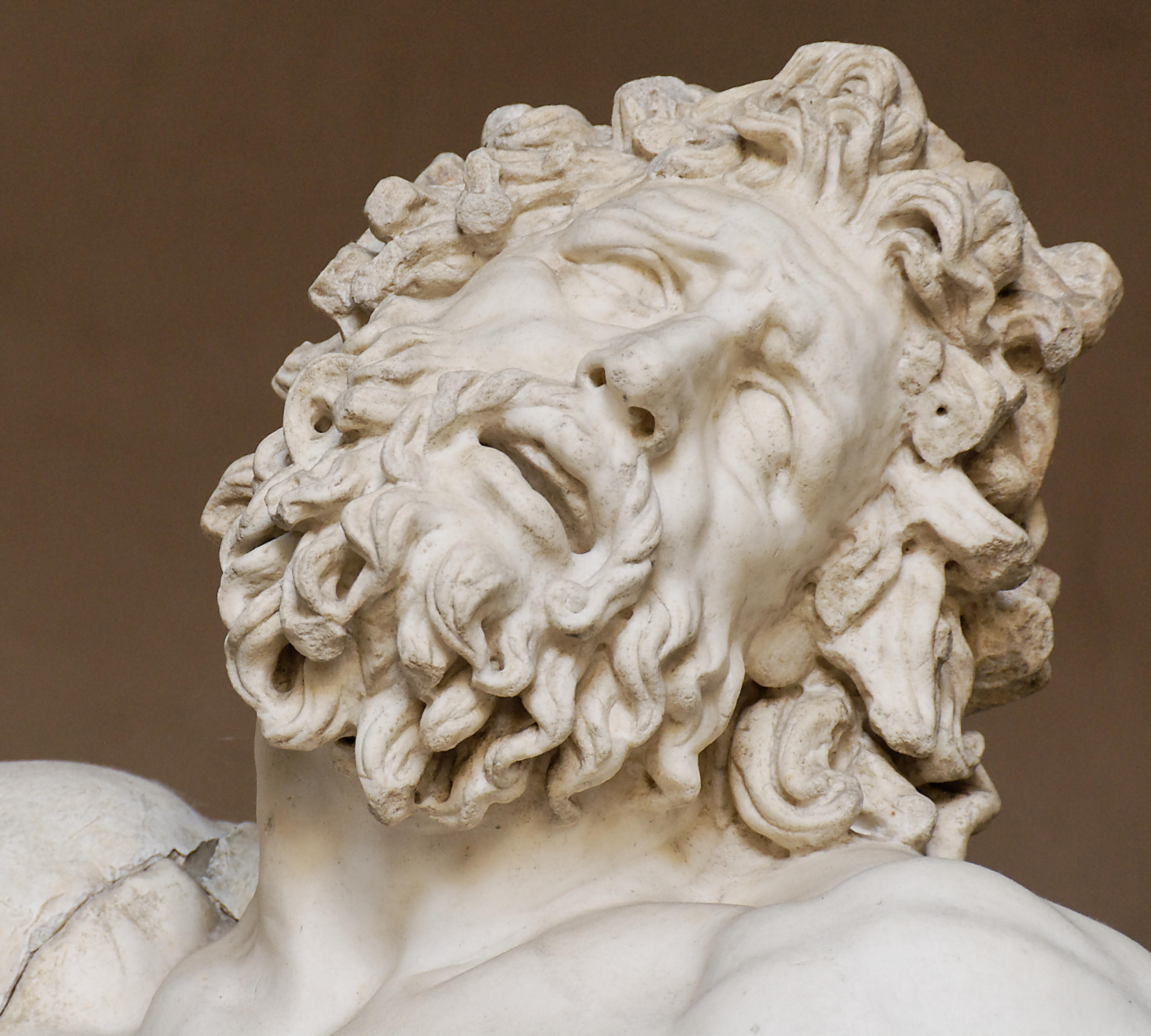 Laocoön and his sons, also known as the Laocoön Group, detail. Marble, copy after an Hellenistic original from ca. 200 BC. Found in the Baths of Trajan, 1506.